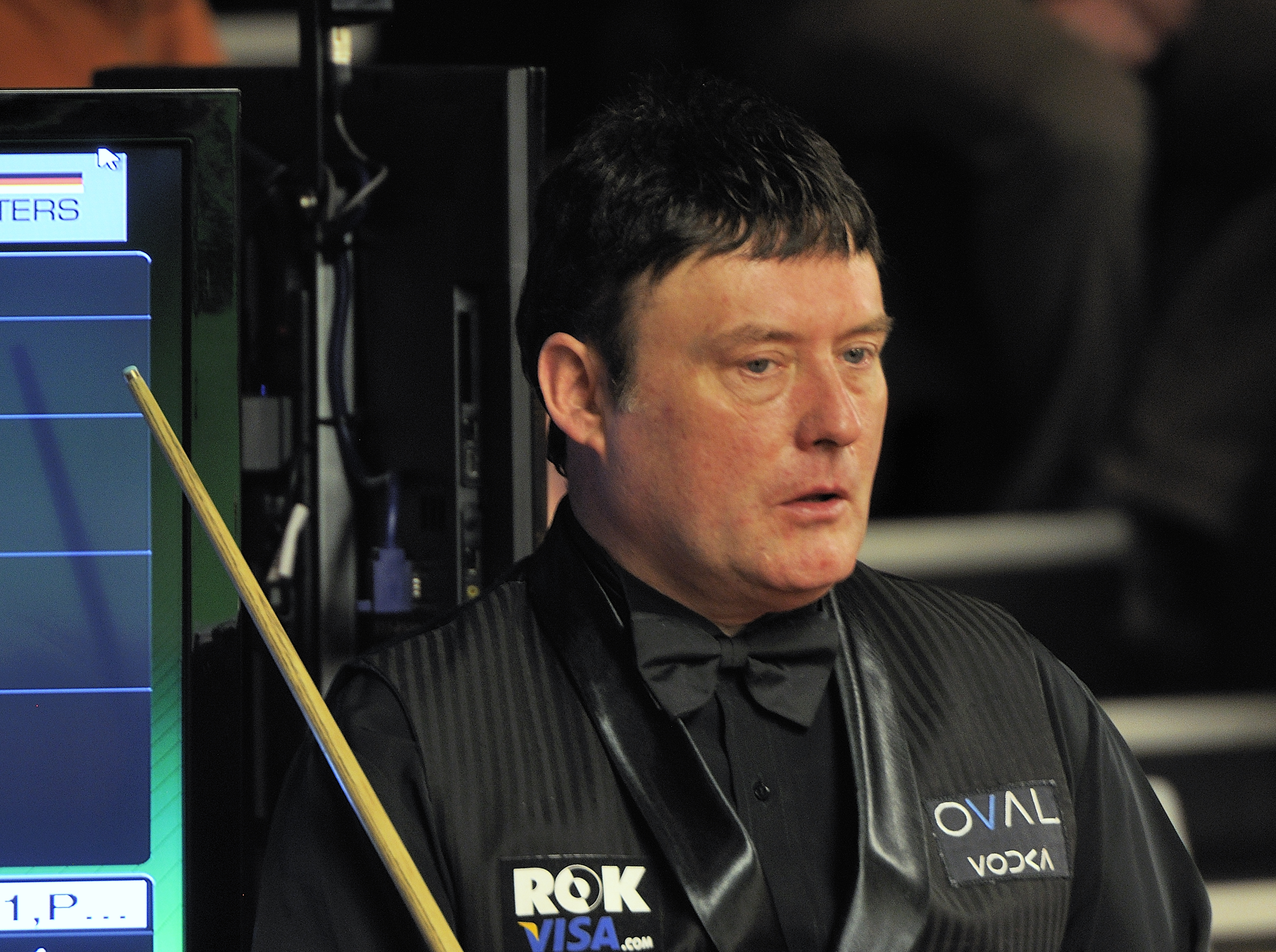 Picture taken in Berlin during the Snooker German Masters in 2014. Jimmy White.